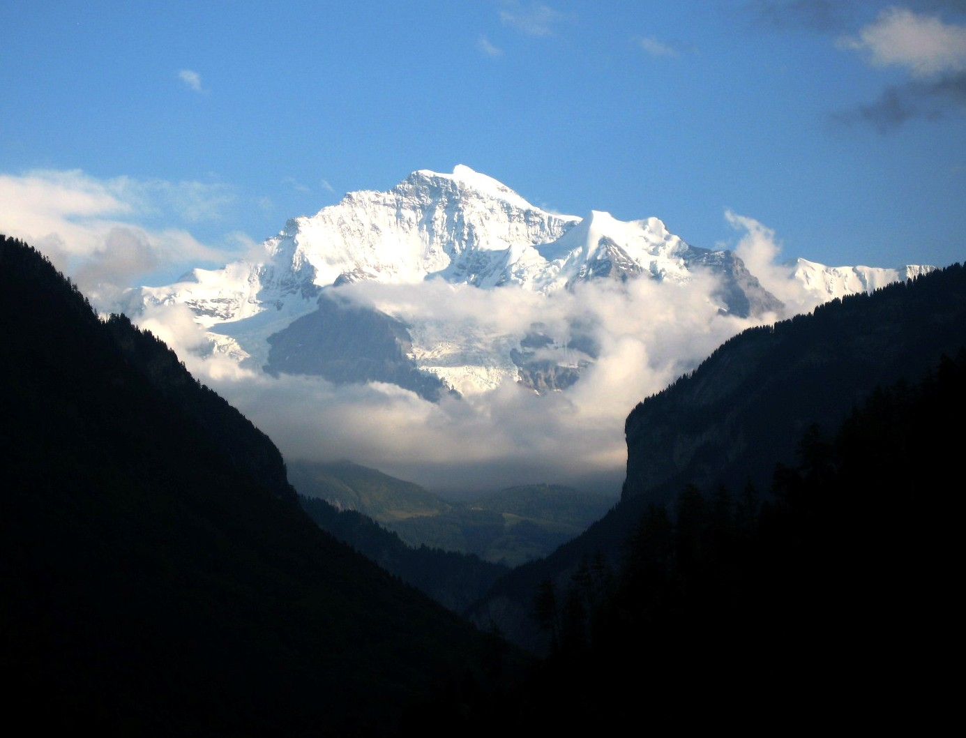 Jungfrau from Interlaken